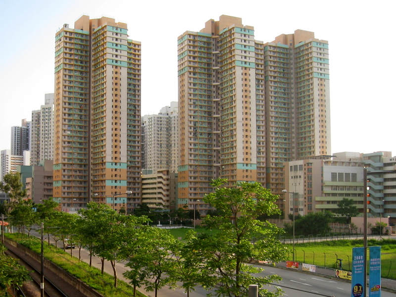 Tin Yan Estate Phase 2 天恩邨